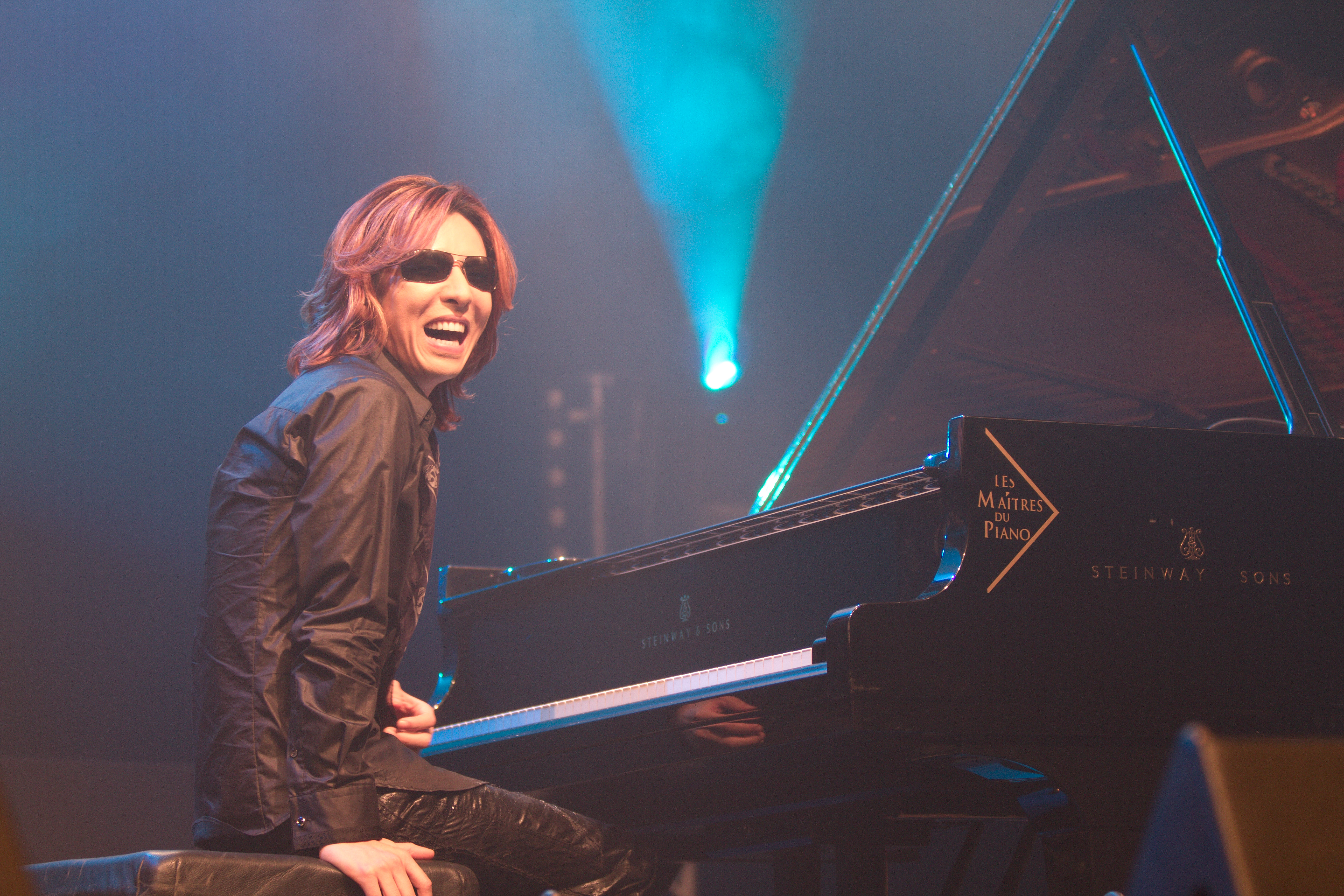 Toshi and Yoshiki, from X Japan, duets at Japan Expo 2010 (Paris, France).